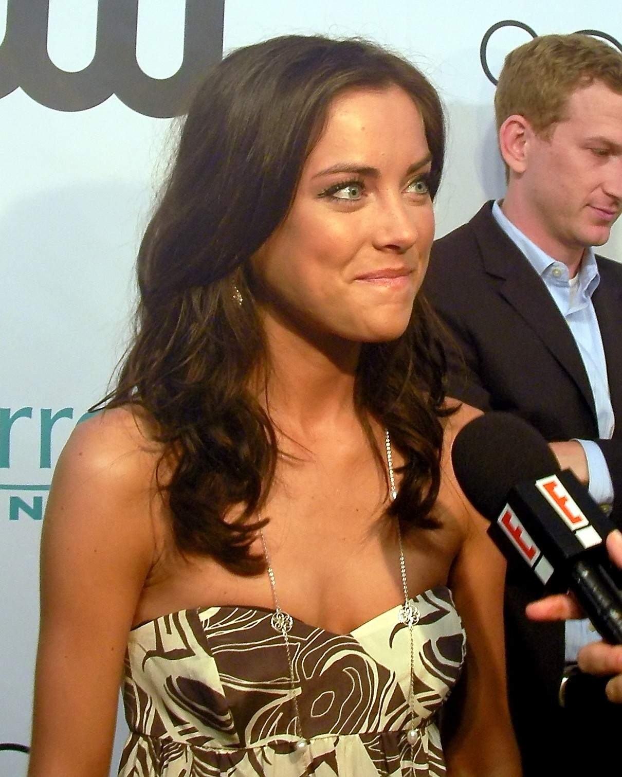 Premiere party for CW's "90210," Malibu, California - Aug. 23, 2008